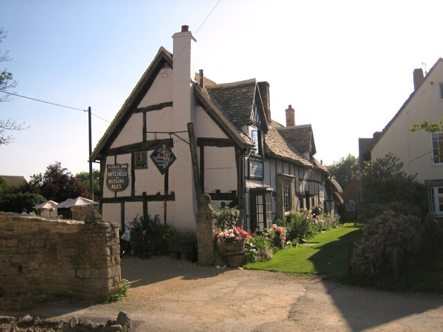 The Fleece public house, Bretforton, Worcestershire, England. The Fleece is owned by the National Trust. In February 2004 it was seriously damaged by fire. It has since been rebuilt as close to the original as possible and reopened in May 2005. Looking south.